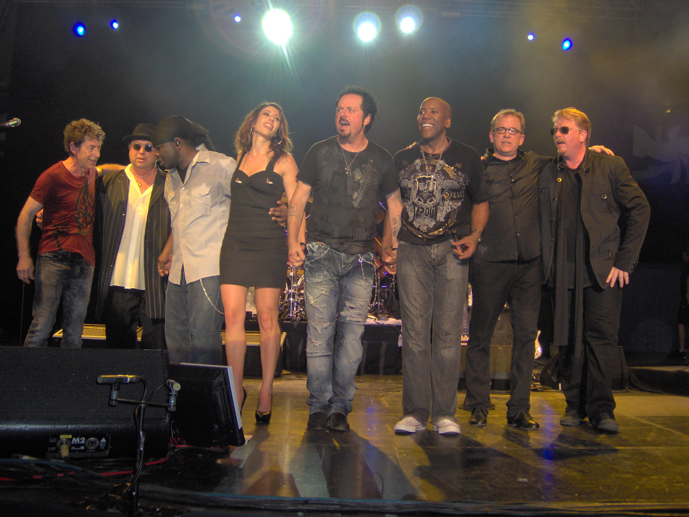 TOTO live in Copenhagen at KB Hallen July 20, 2010. The 2010 lineup from left to right: Simon Phillips (drums), David Paich (keyboards, vocals), Mabvuto Carpenter (vocals), Jory Steinberg (vocals), Steve Lukather (guitar, vocals), Nathan East (bass, vocals), Steve Porcaro (keyboards) and Joseph Williams (vocals).